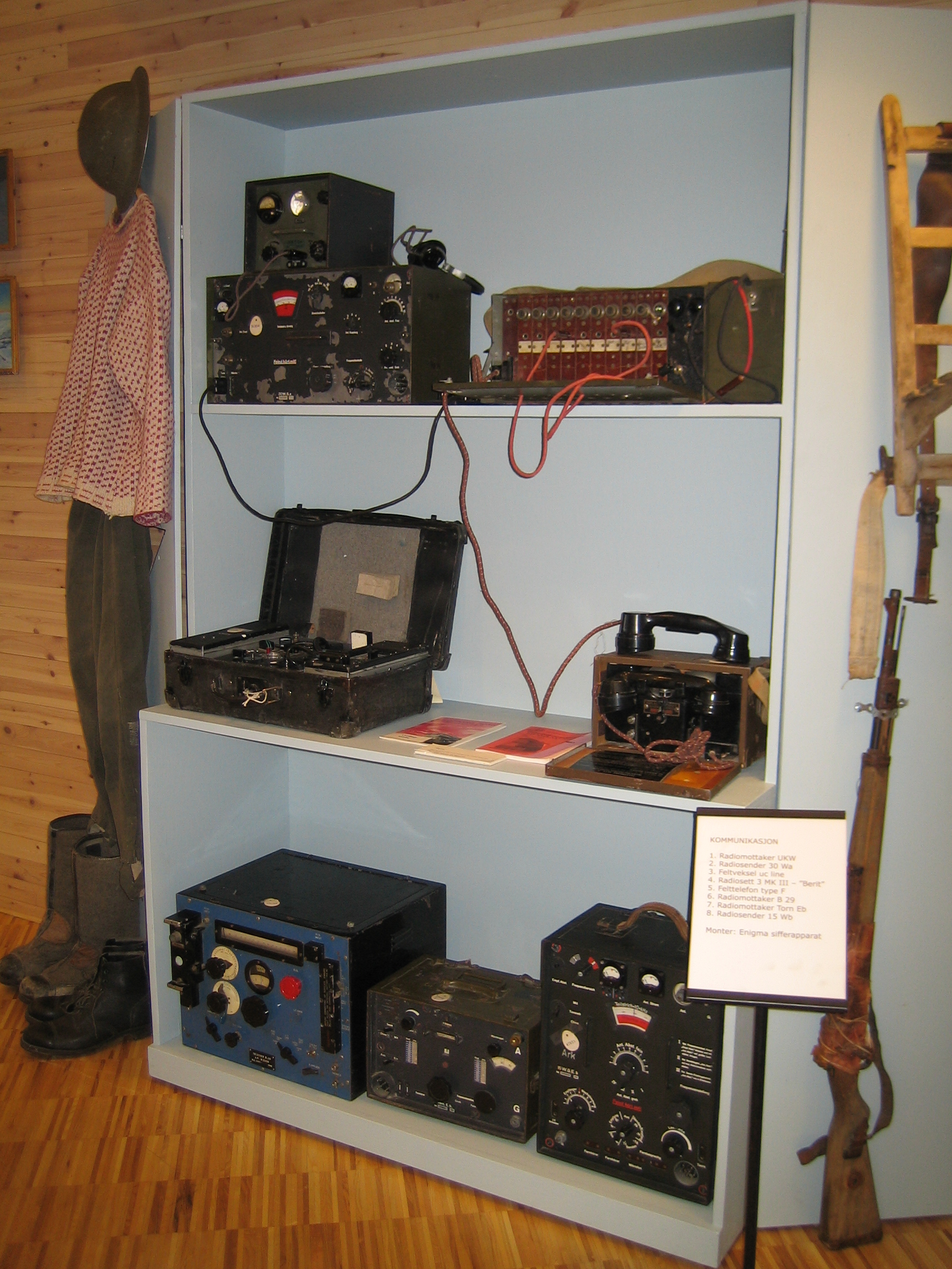 Communication equipment from the WWII conflicts on Svalbard, exhibited in the Svalbard Museum in Longyearbyen